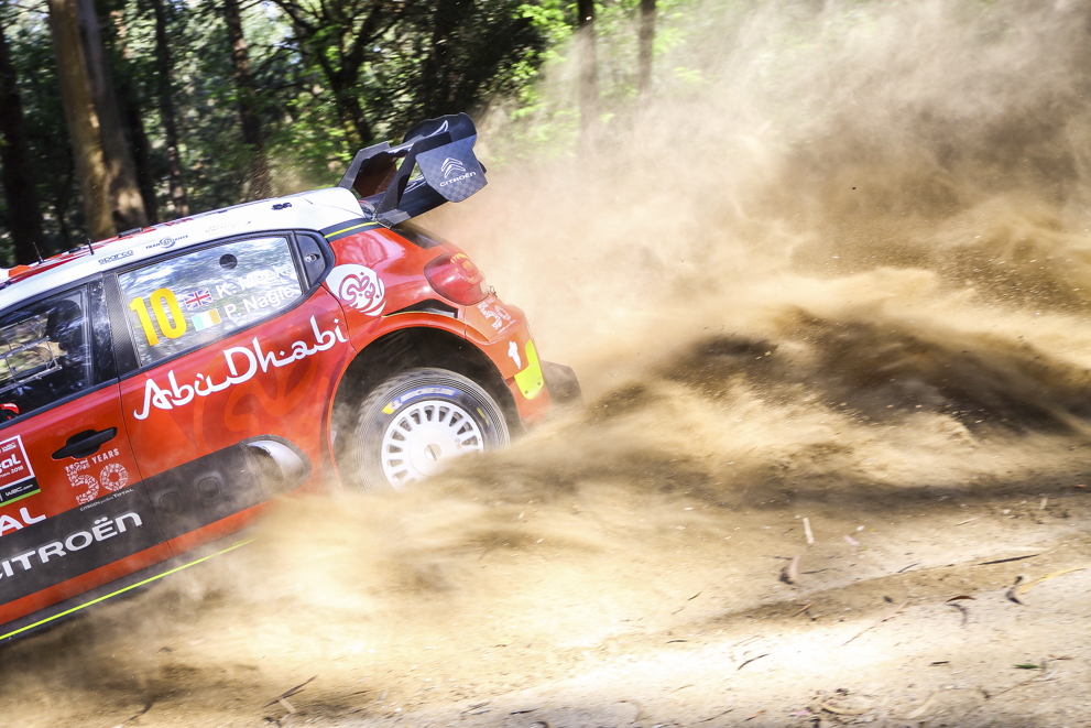 Stage of Viana do Castelo